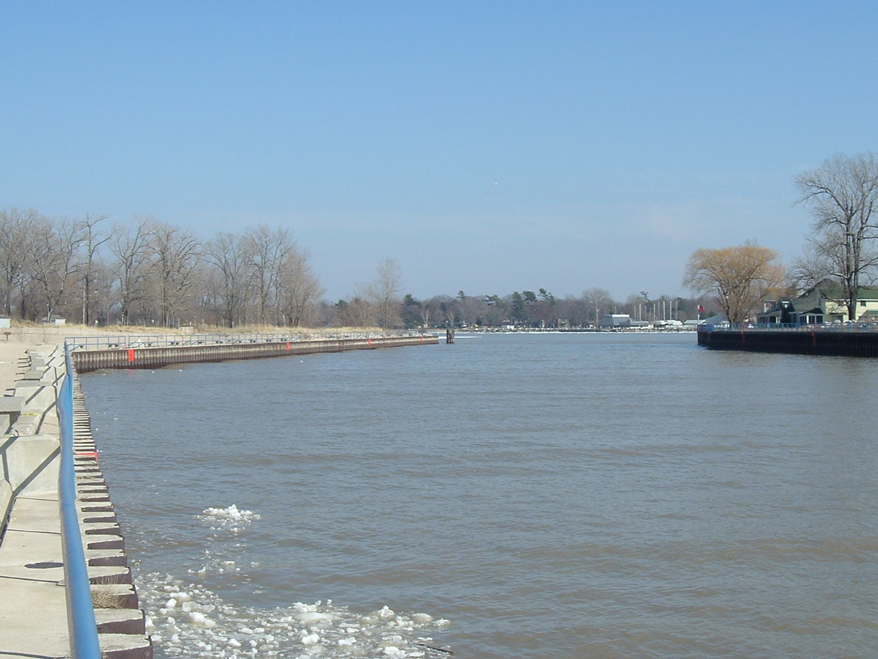 Copyright (c) 2006 James Colby Hook III. Permission is granted to copy, distribute and/or modify this document under the terms of the GNU Free Documentation License, Version 1.2 or any later version published by the Free Software Foundation; with no Invariant Sections, no Front-Cover Texts, and no Back-Cover Texts. A copy of the license is included in the section entitled "GNU Free Documentation License"